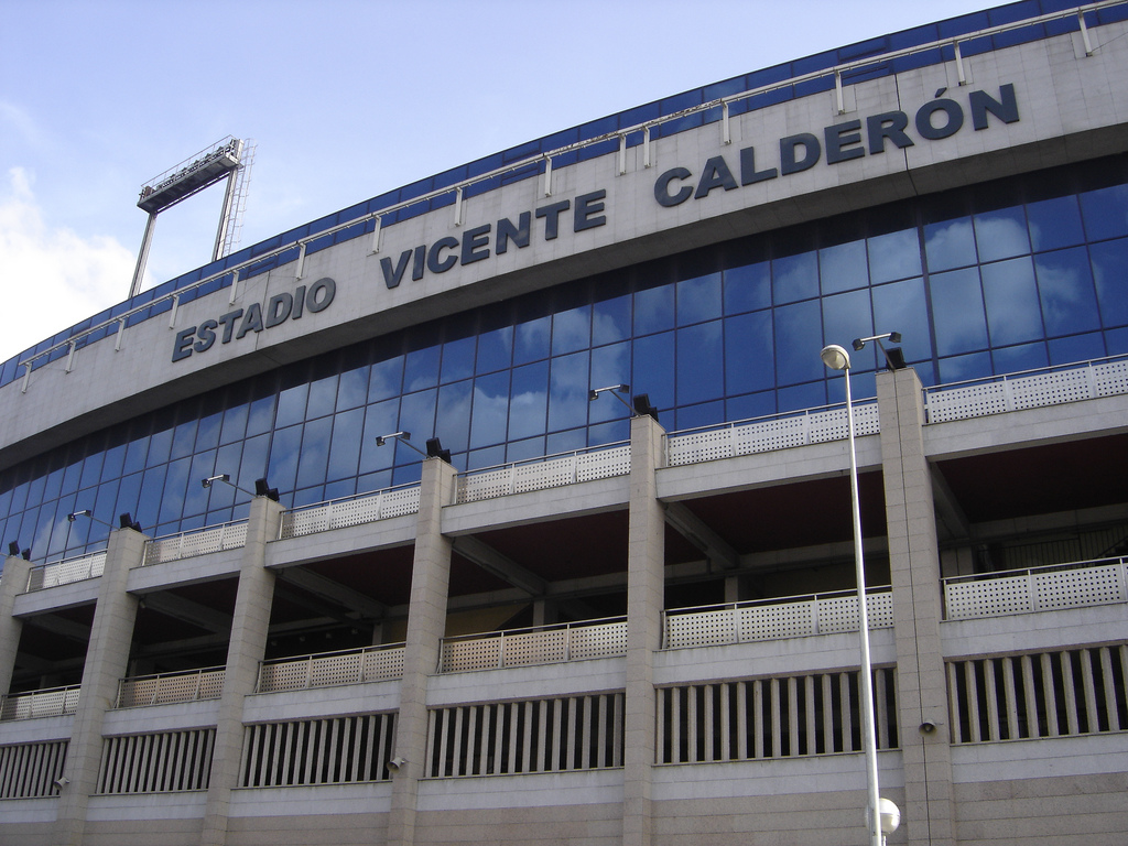 Stadium Vicente Calderon in Madrid (Spain)